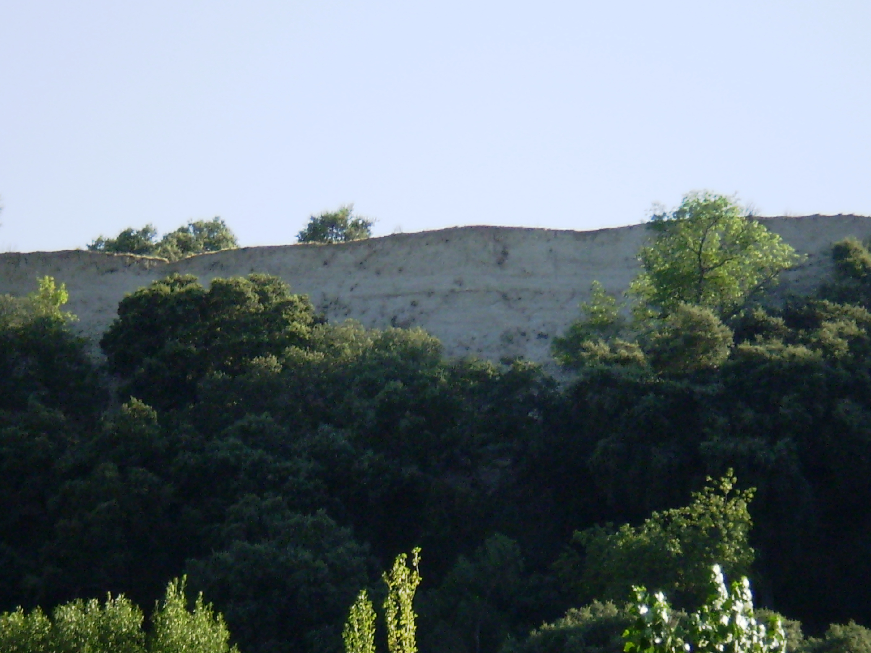 Monte de El Pardo, Community of Madrid, Spain